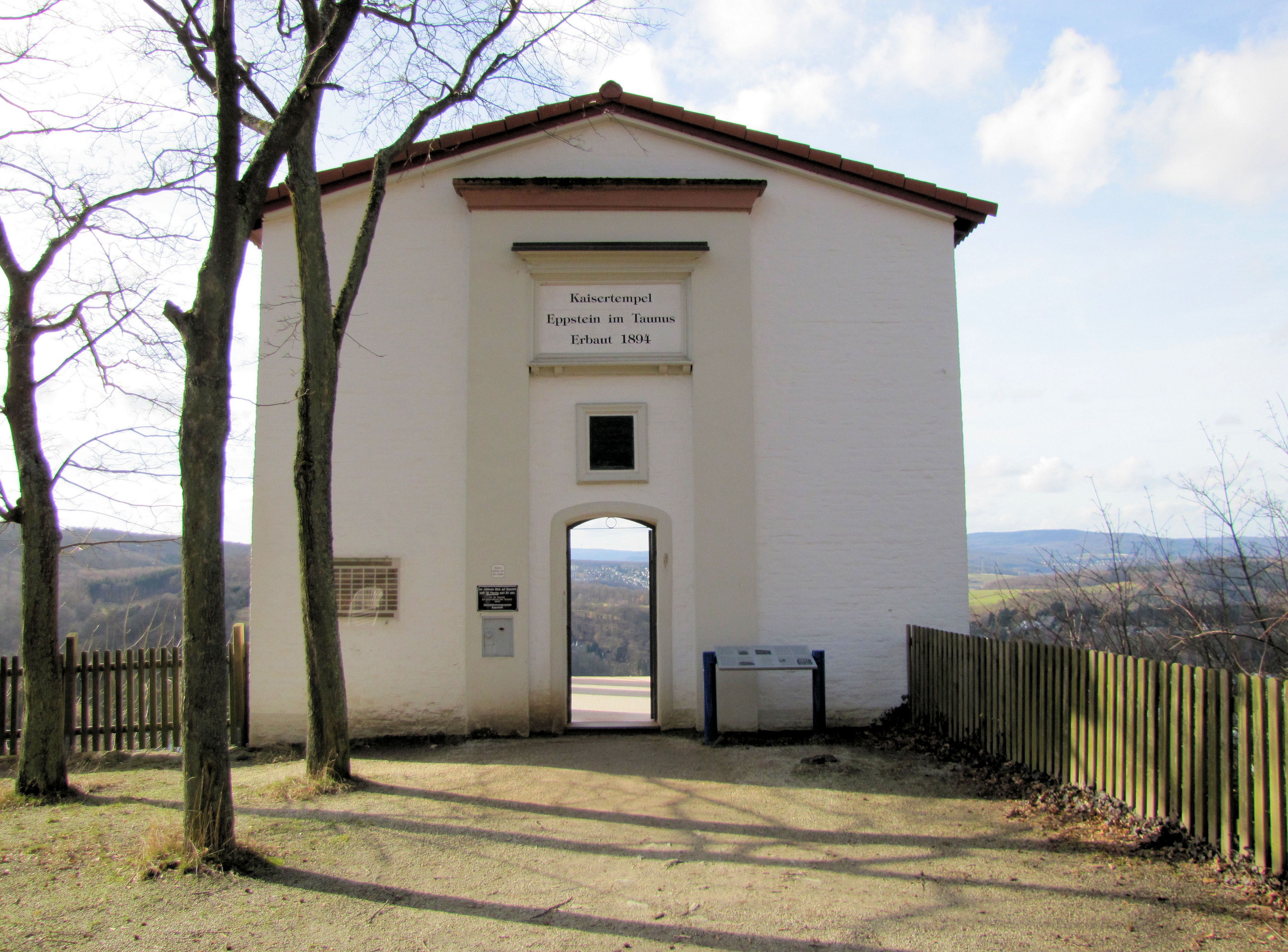 "Kaisertempel", at Eppstein in the Main-Taunus-Kreis, Hesse, Germany